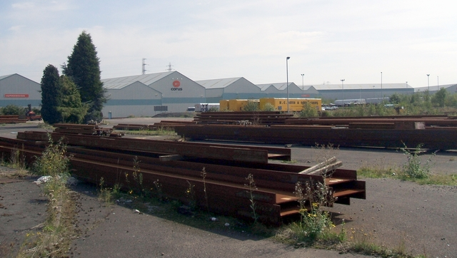 Steel Distribution Depot. Distribution depot on former 'Seamless Tubes' site in Wednesfield.